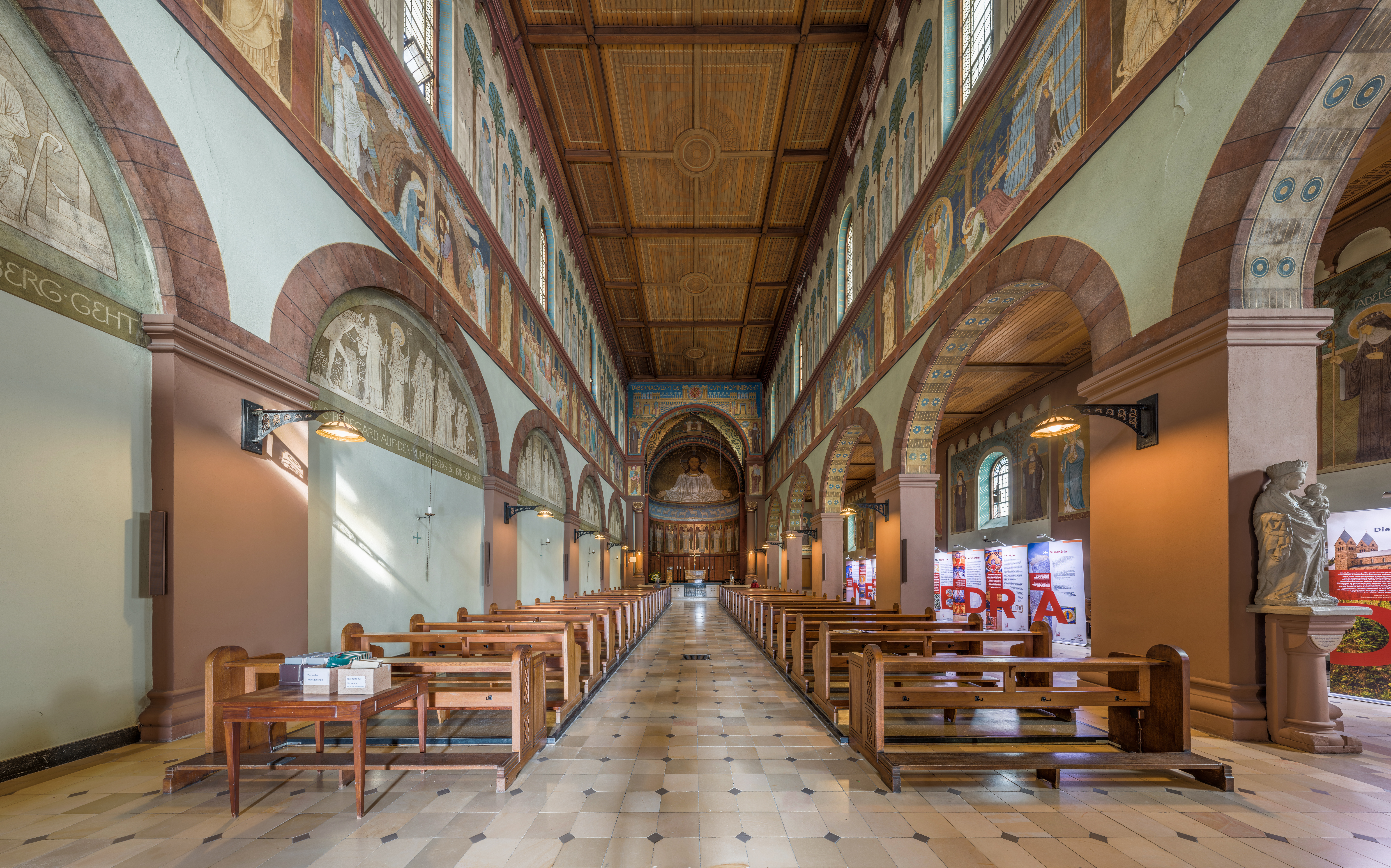 The nave of Eibingen Abbey, aka Abtei St. Hildegard